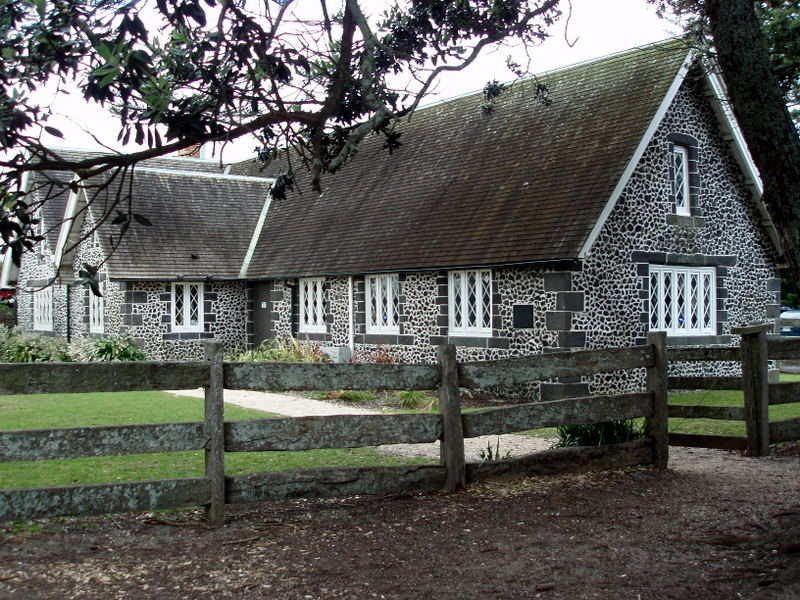 I took this picture of the mission buildings at Mission Bay and release it to the public domain. Nick 14:12, 5 December 2006 (UTC)